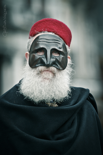 This mask represents the satirical and grotesque appearances portrayed at carnival.